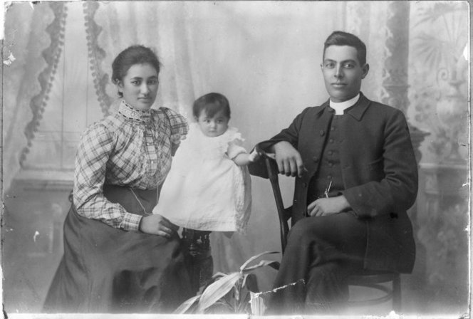 Frederick Augustus Bennett, with his first wife Hana Te Unuhi Mere Paaka (Hannah Mary Park), and their child Rawinia Bennett, circa 1900. Photographer unidentified.